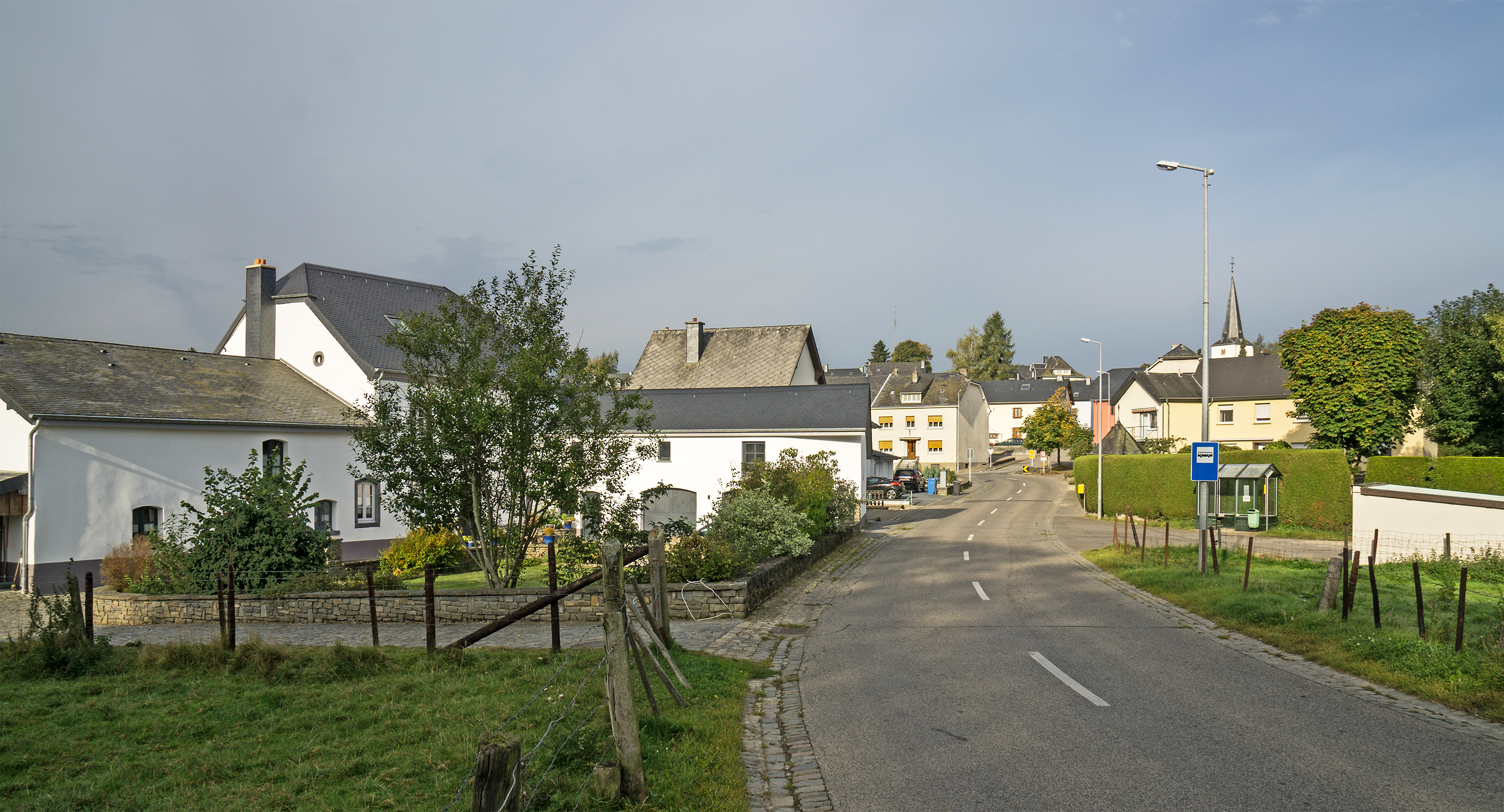 Wayside chapel on the main road in Deiffelt